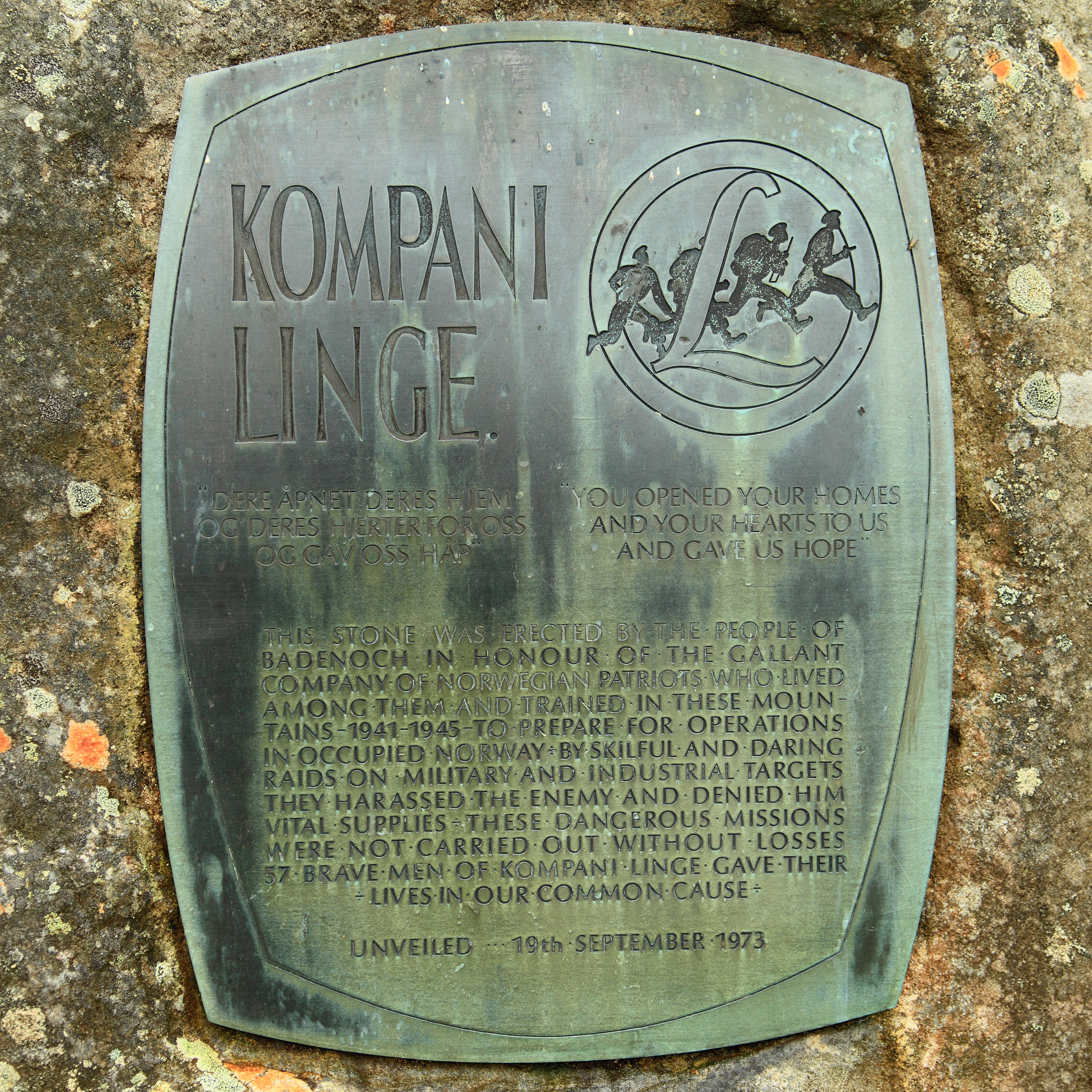 Plaque commemorating the Kompani Linge. 'Kompani Linge "Dere åpnet deres hjem og deres hjerter for oss og gav oss håp." "You opened your homes and your hearts to us and gave us hope." This stone was erected by the people of Badenoch in honour of the gallant company of Norwegian patriots who lived among them and trained in these mountains 1941-1945 to prepare for operations in occupied Norway. By skilful and daring raids on military and industrial targets they harassed the enemy and denied him vital supplies. These dangerous missions were not carried out without losses; 57 brave men of Kompani Linge gave their lives in our common cause. Unveiled 19th September 1973'